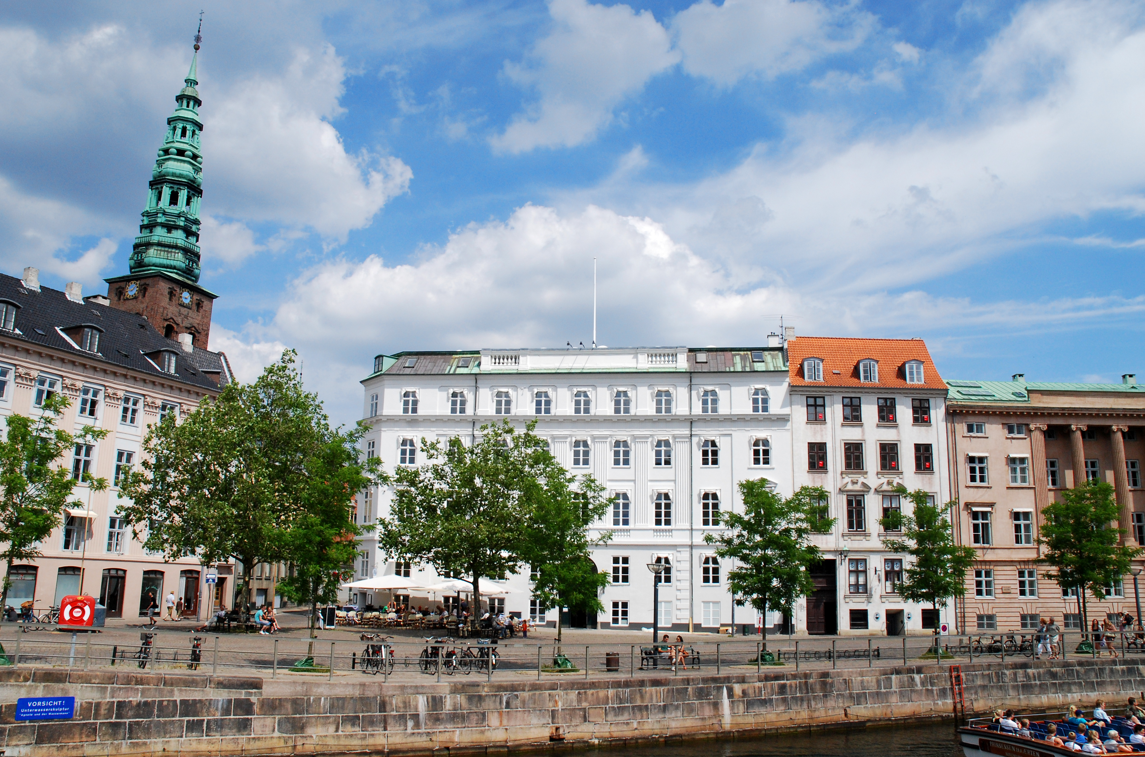 Facade of Nordic Councils headquarter in Copenhagen, Denmark